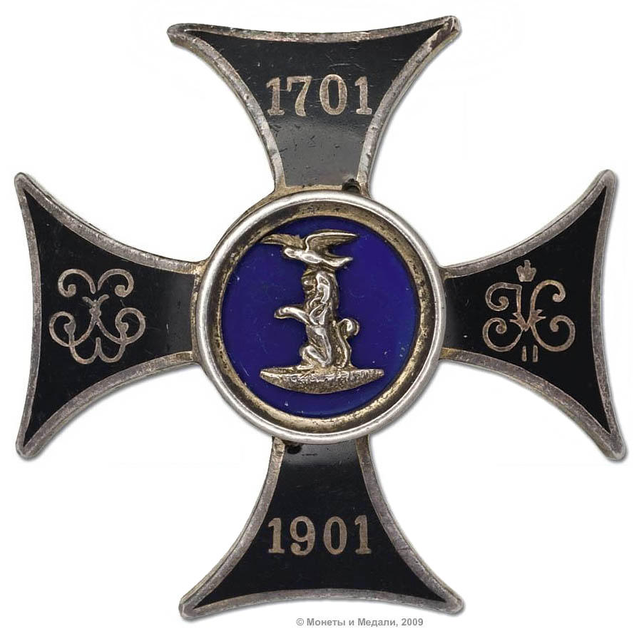 Badge of Belgorodsky 12-th Ulan Regiment